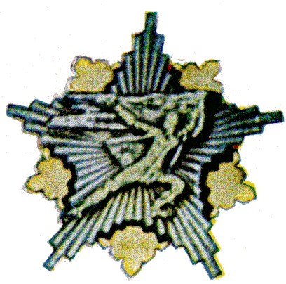 Commemorative medal of the partisans of 1941